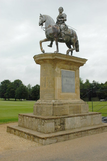 Statue of George I, Stowe The statue of George I is situated in outside the north front of Stowe House. It was erected by Lord Cobham to demonstrate his loyalty to the Hanoverian king.